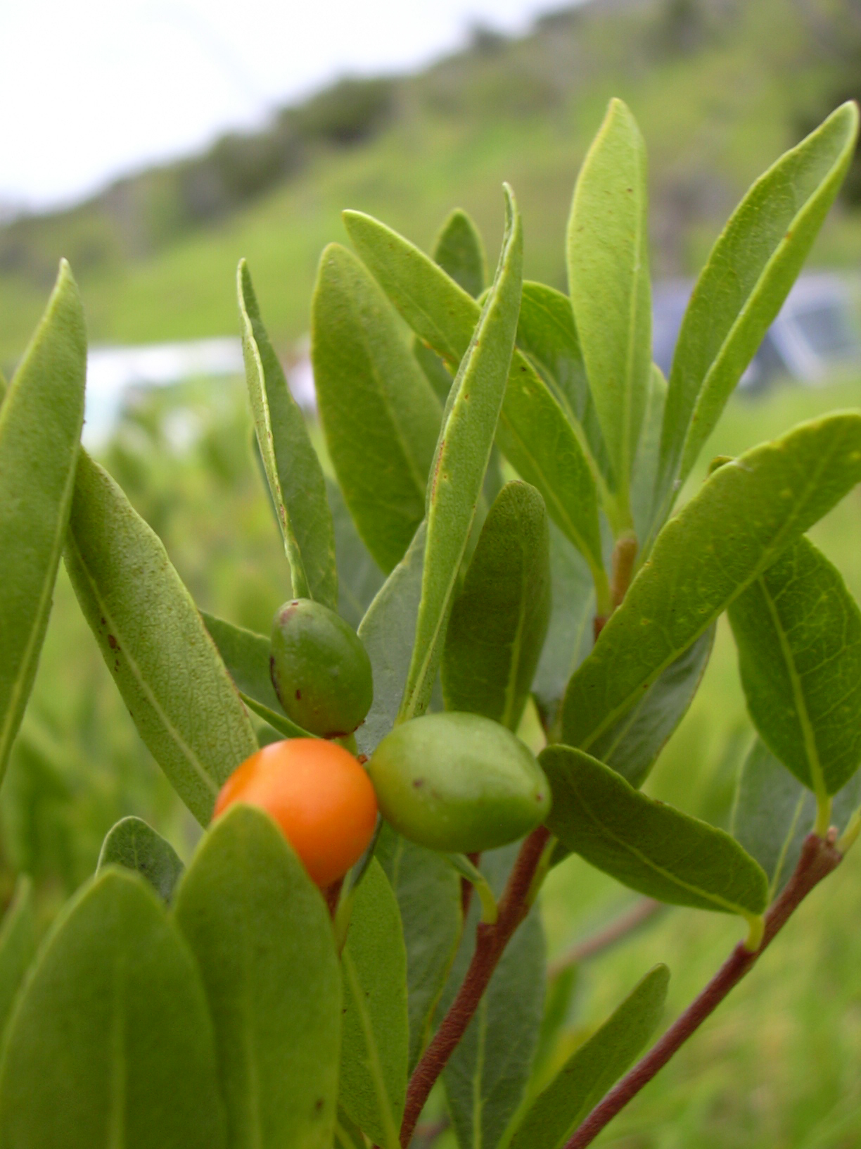 Wikstroemia monticola (fruit). Location: Maui, Auwahi